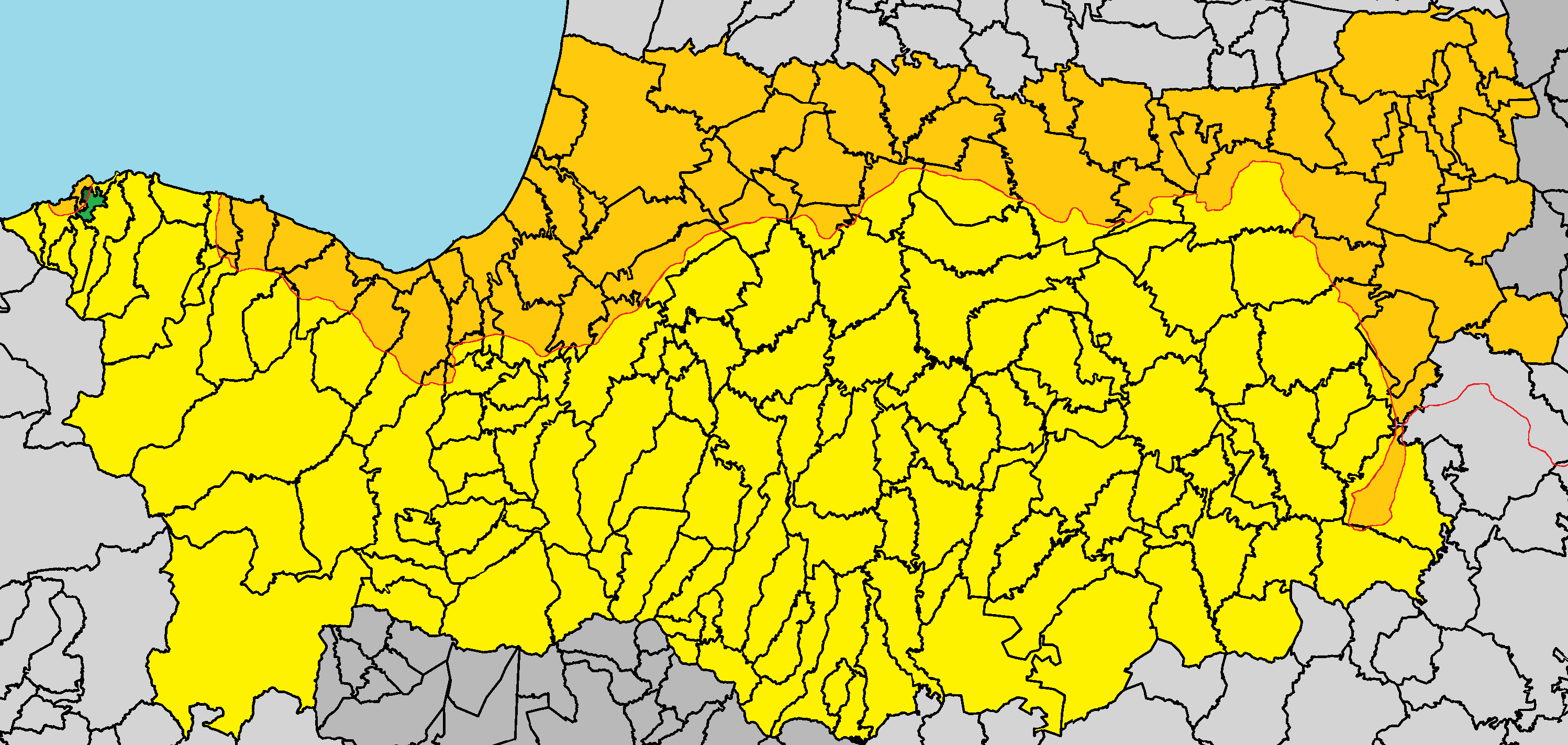 Mosfileri in Nicosia District (de jure).